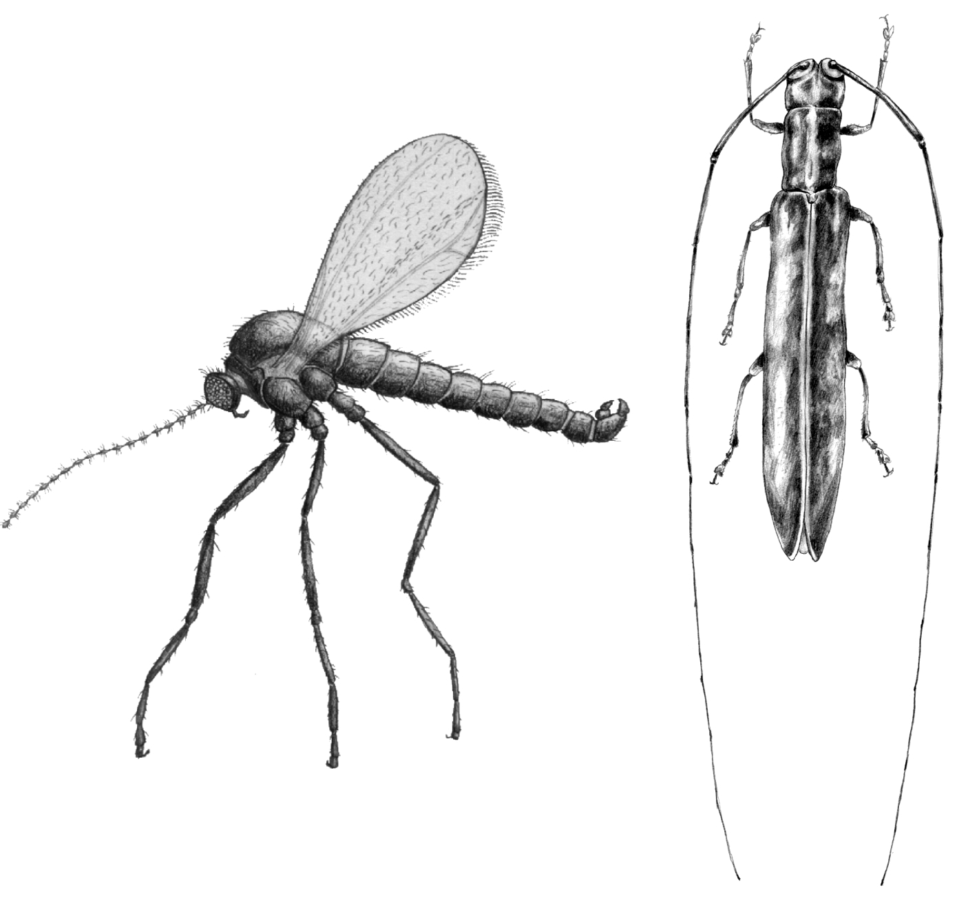 Dibujo a grafito de Mayetiola destructor (mosquito del trigo) y Calamobius filum (tronchaespigas)